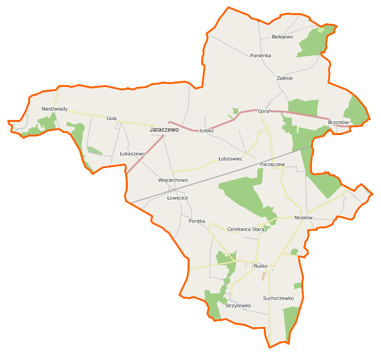 Map of Gmina Jaraczewo, Poland This map of Jaraczewo (gmina) was created from OpenStreetMap project data, collected by the community. This map may be incomplete, and may contain errors. Don't rely solely on it for navigation. Border coordinates52.024817.1809←↕→17.450151.8695